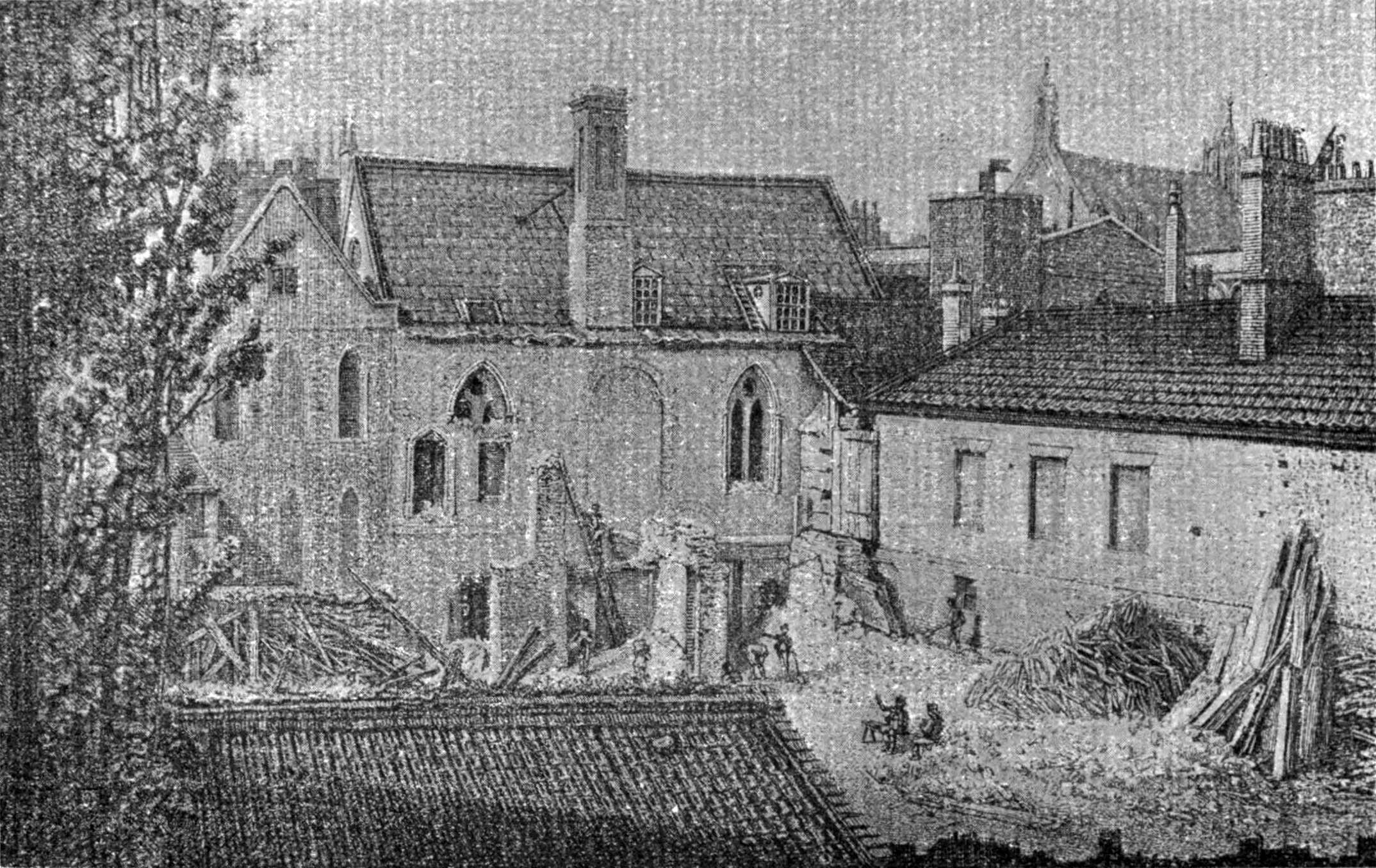 The east side of the House of Lords, and the east end of the Prince's Chamber